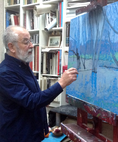 Daniel Quintero - Painter